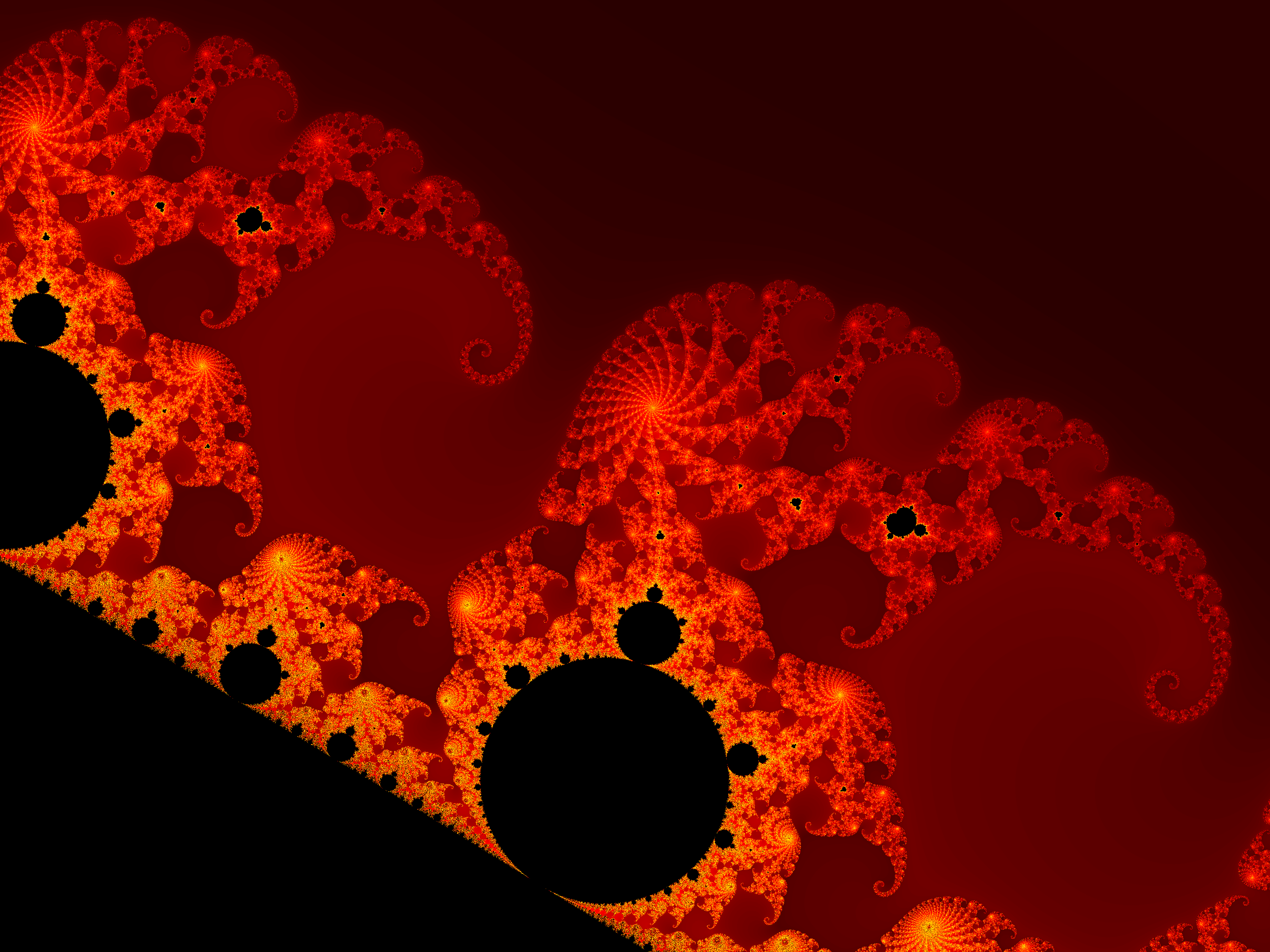 Closeup of the Mandelbrot set centered at (0.282, -0.01) at magnification 195.3125 times along the Y-Axis using 5000 iterations.